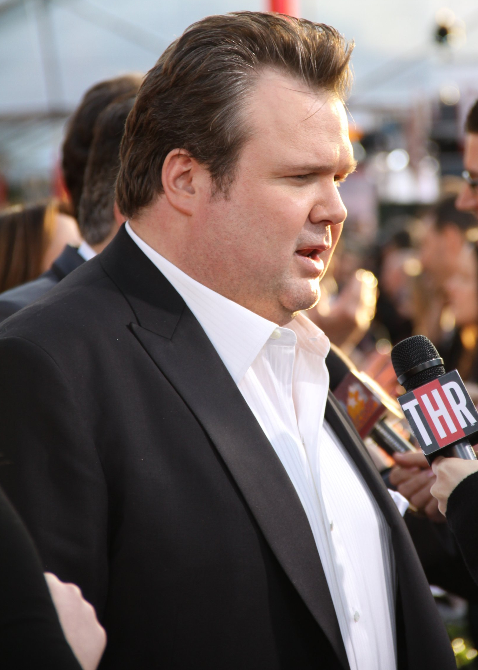 Eric Stonestreet at the Screen Actors Guild Awards, Shrine Auditorium, Los Angeles on January 23rd, 2010.